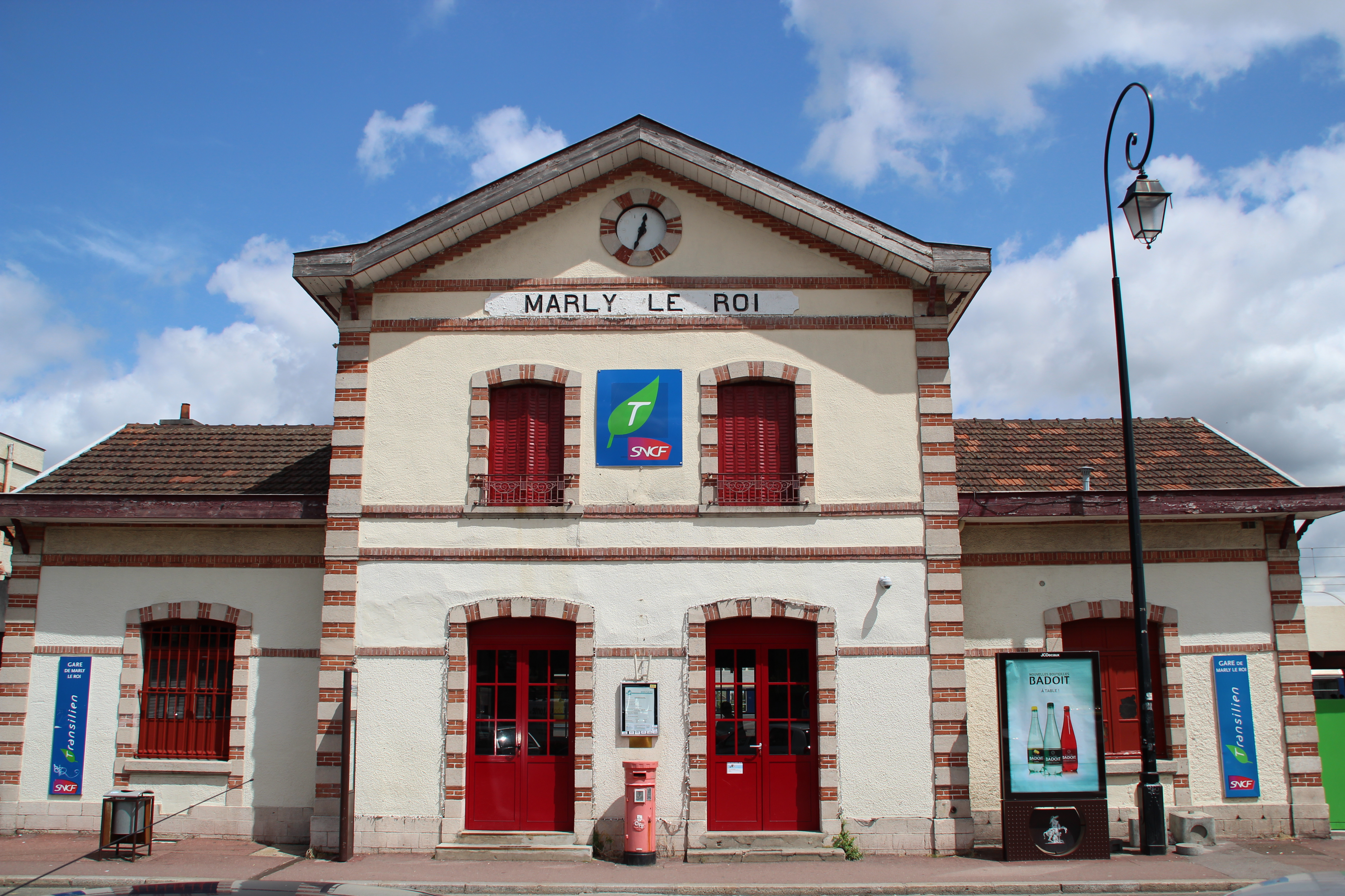 Train station of Marly-le-Roi, France. - Google Maps - Google Earth